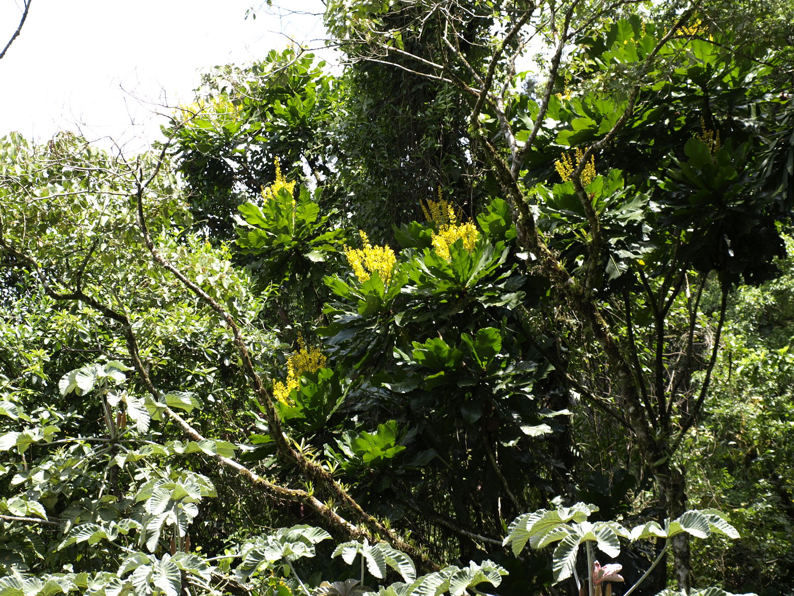 Arenal Hanging Bridges, Costa Rica